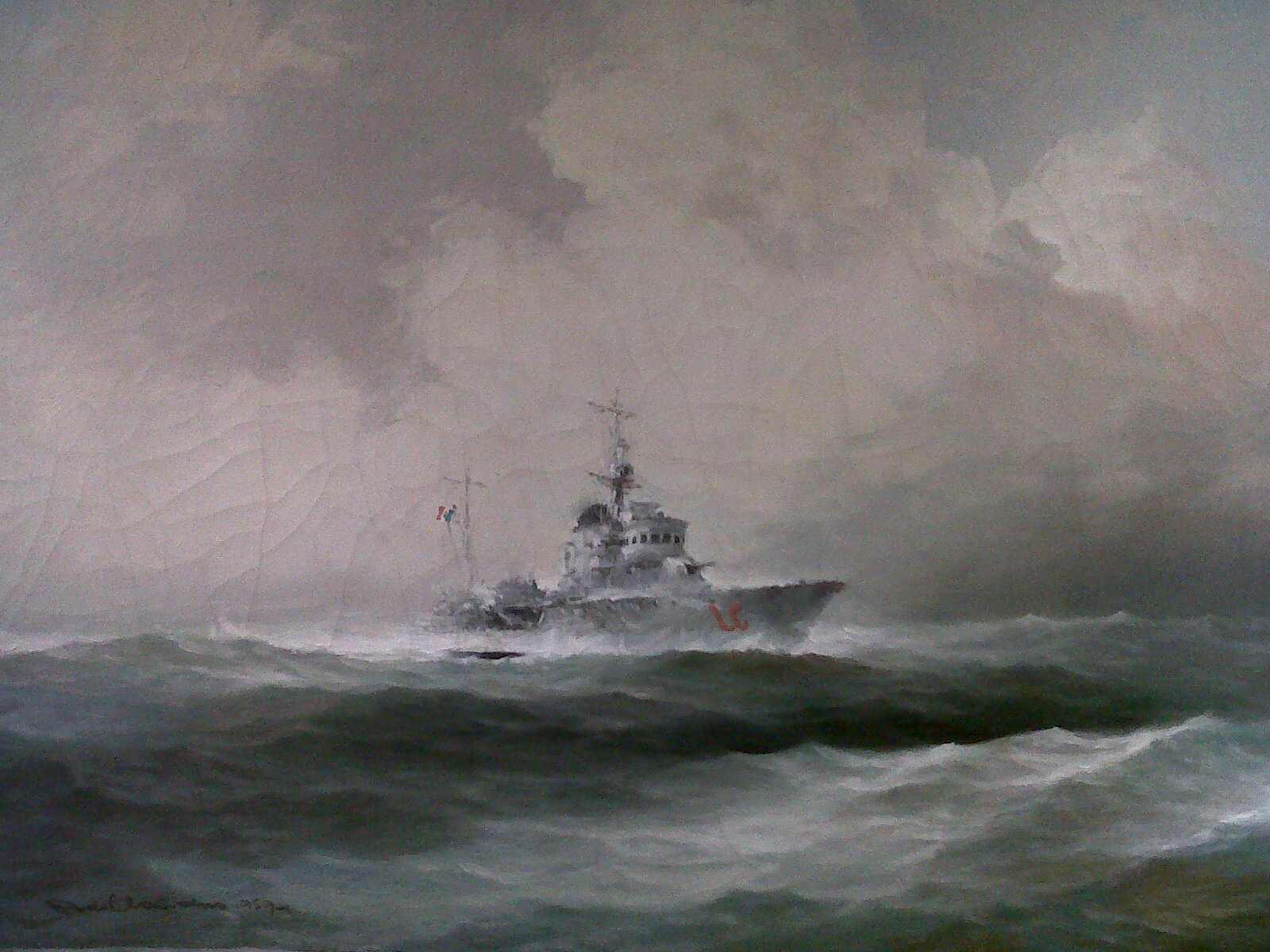 Lince (torpediniera) Clase Spica